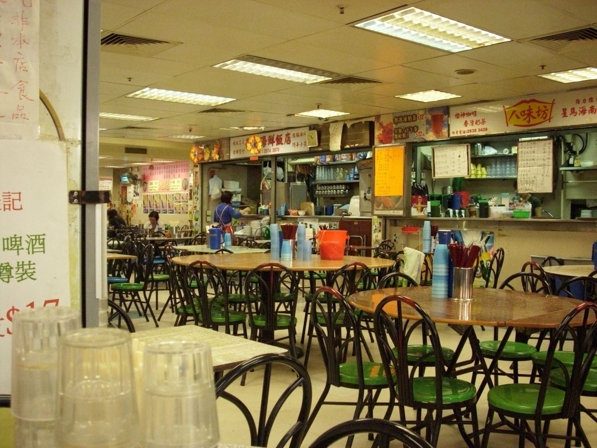 Wanchai Bowrington Food Centre, Hong Kong 中文（香港）: 香港灣仔鵝頸熟食中心